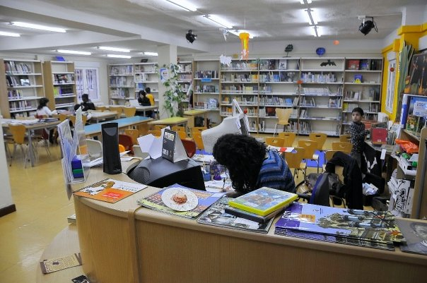 Biblioteca Municipal de Vidal